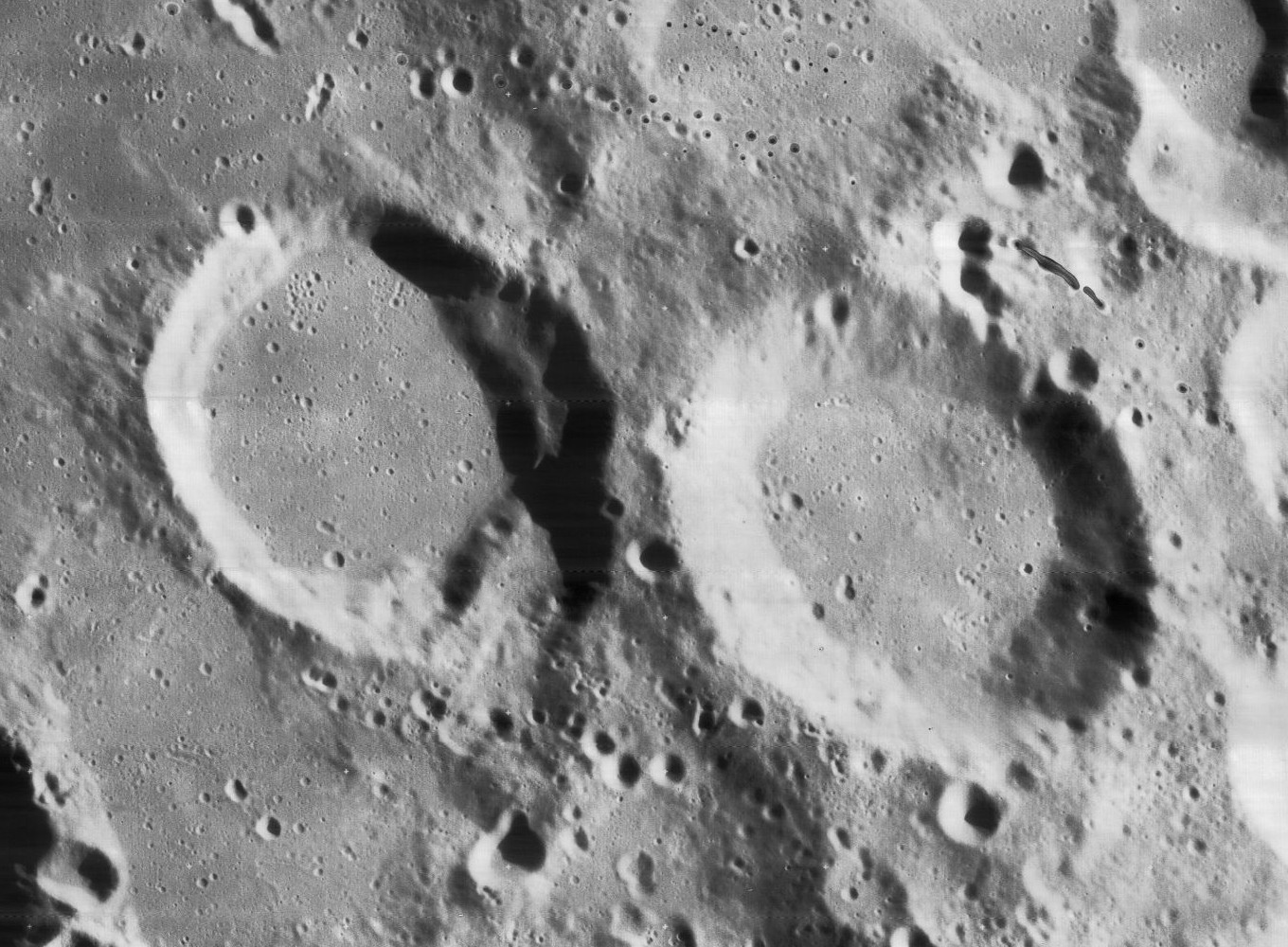 Slightly oblique view of Rost (right) and Rost A crater (left), on the moon. Black dots and streaks near top are blemishes present on original.